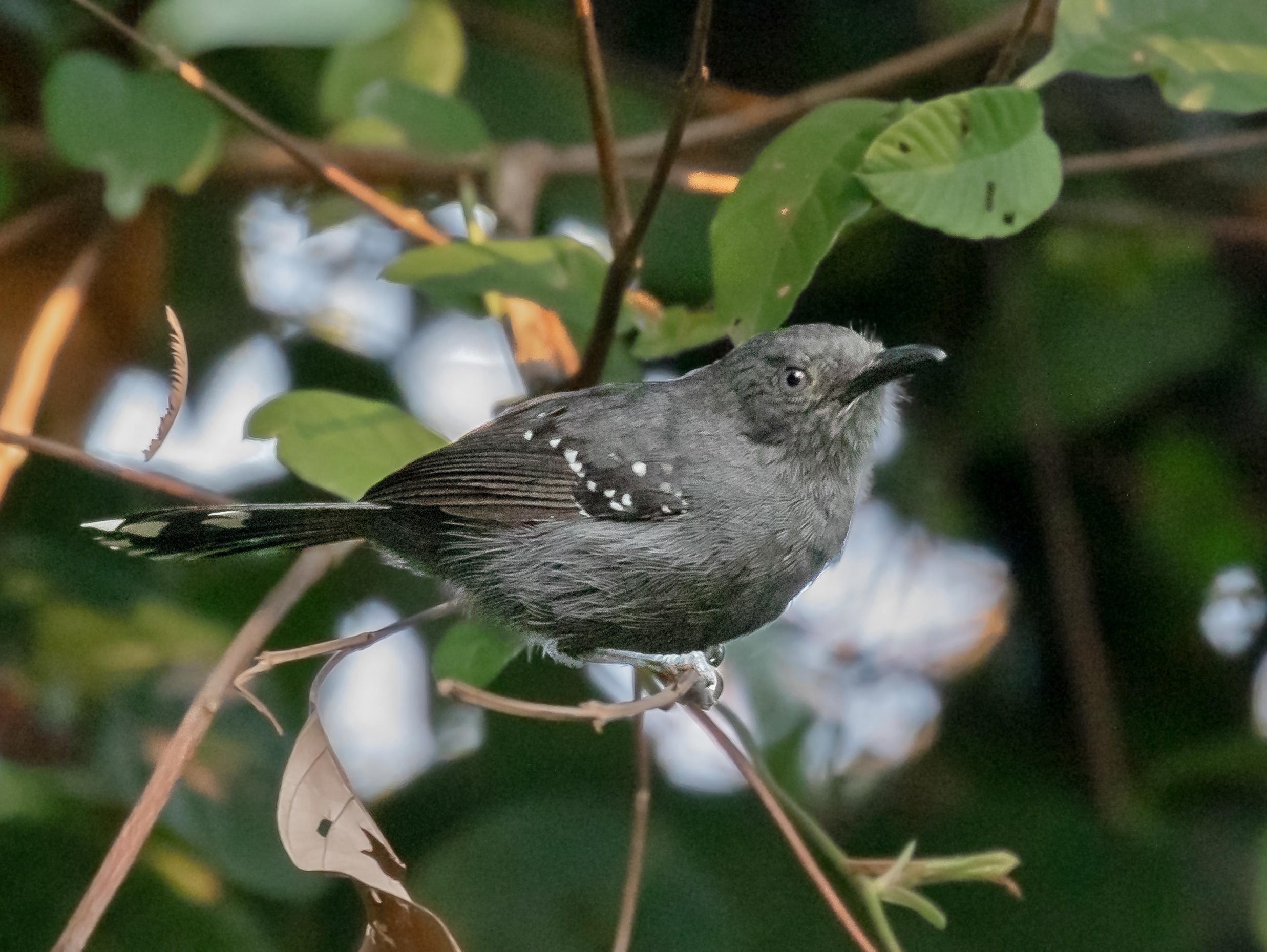 Gray Anbird (male); Carajás National Forest, Para, Brazil